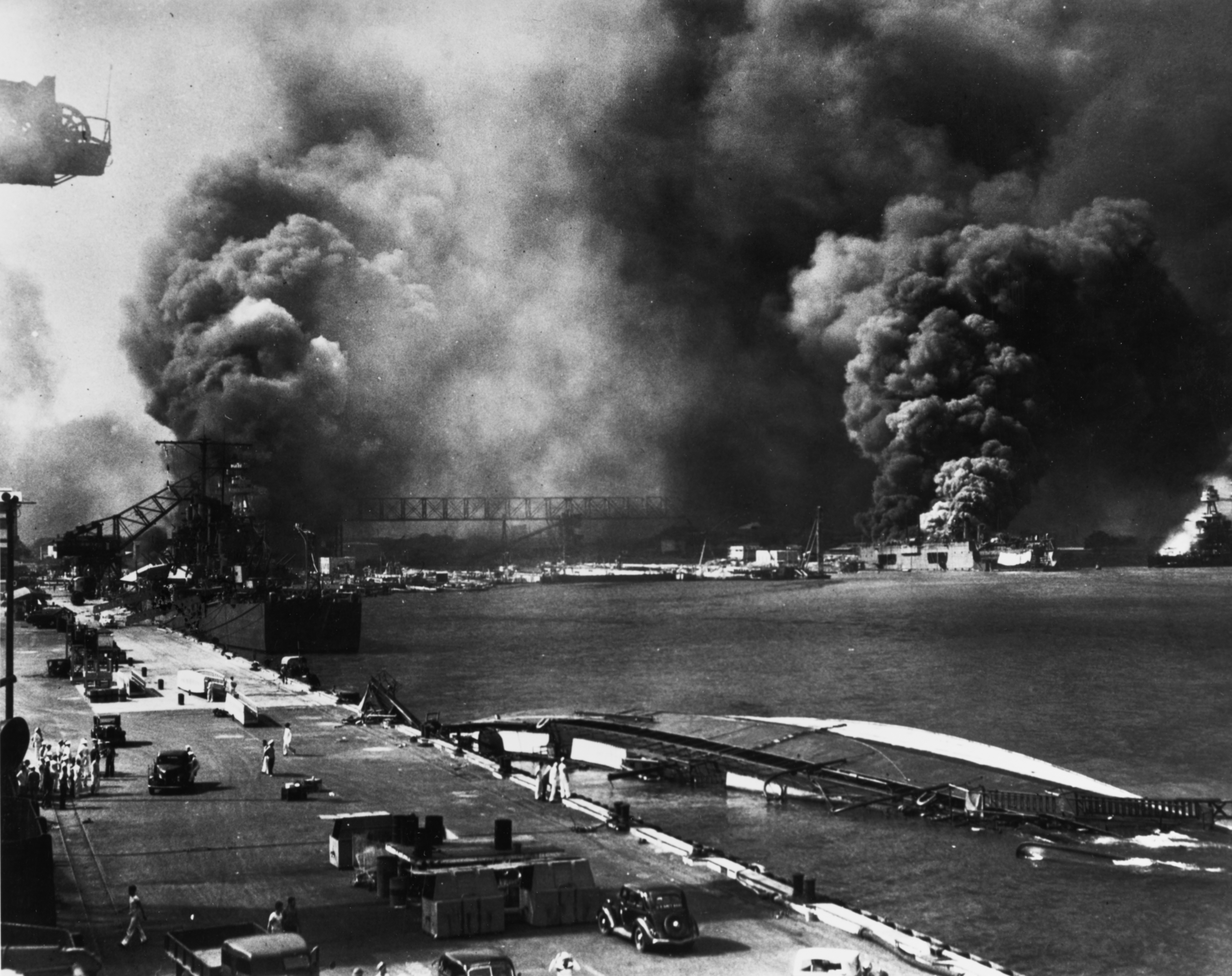 Pearl Harbor Attack, 7 December 1941: View from Pier 1010, looking toward the Pearl Harbor Navy Yard's drydocks, with the destroyer USS Shaw (DD-373) in floating drydock YFD-2 and the battleship USS Nevada (BB-36) burning at right. In the foreground is the capsized minelayler USS Oglala (CM-4), with the light cruiser USS Helena (CL-50) further down the pier, at left. Beyond Helena is Drydock No.1, with USS Pennsylvania (BB-38) and the burning destroyers USS Cassin (DD-372) and USS Downes (DD-375).